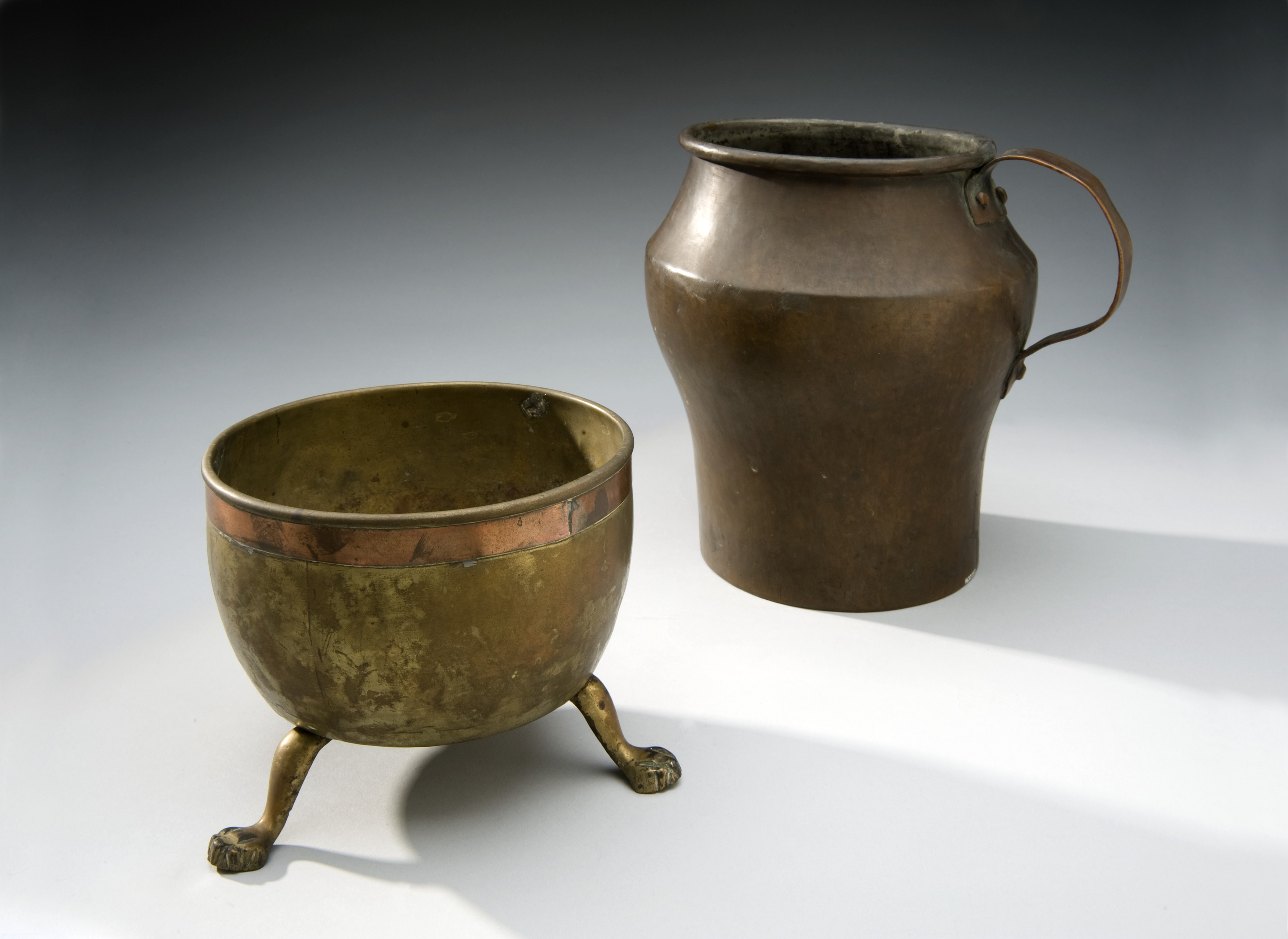 This container was collected from a barber-surgeon’s premises and was possibly used for holding water or for collecting blood during bloodletting. maker: Unknown maker Place made: England, United Kingdom Wellcome Images Keywords: vessel; Bloodletting